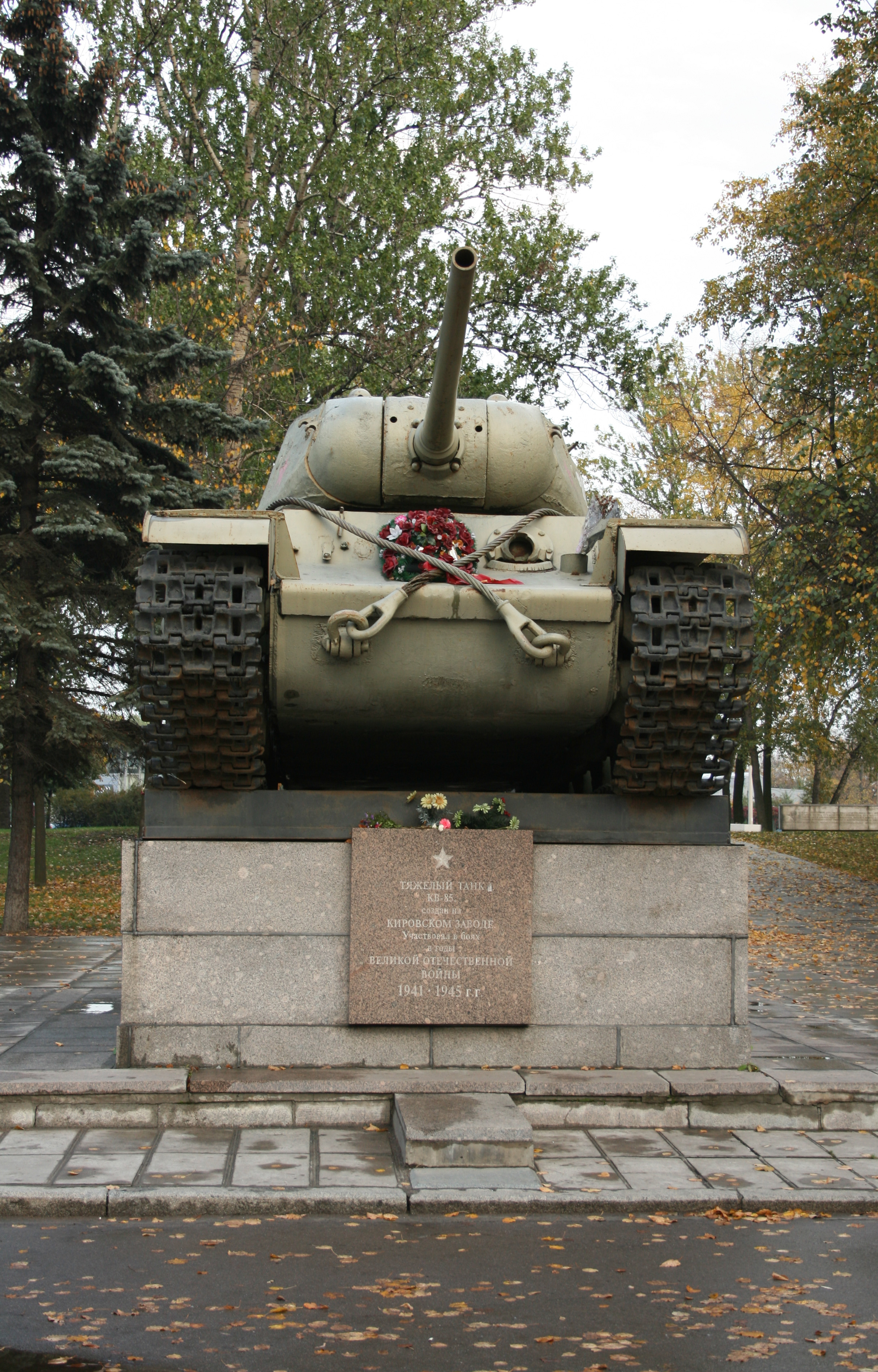 KV-85, front view